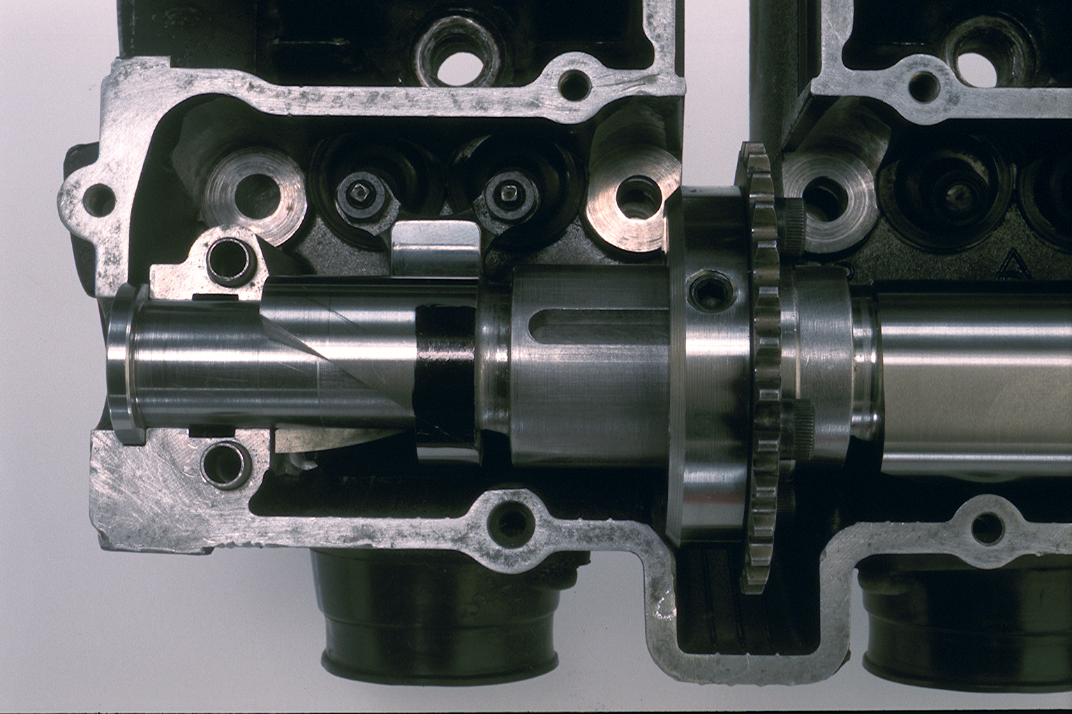 Suzuki GSX 250 helical cam. The cam is fitted to a head and is in the maximum duration position. The area of constant nose radius is marked with black felt tip pen.